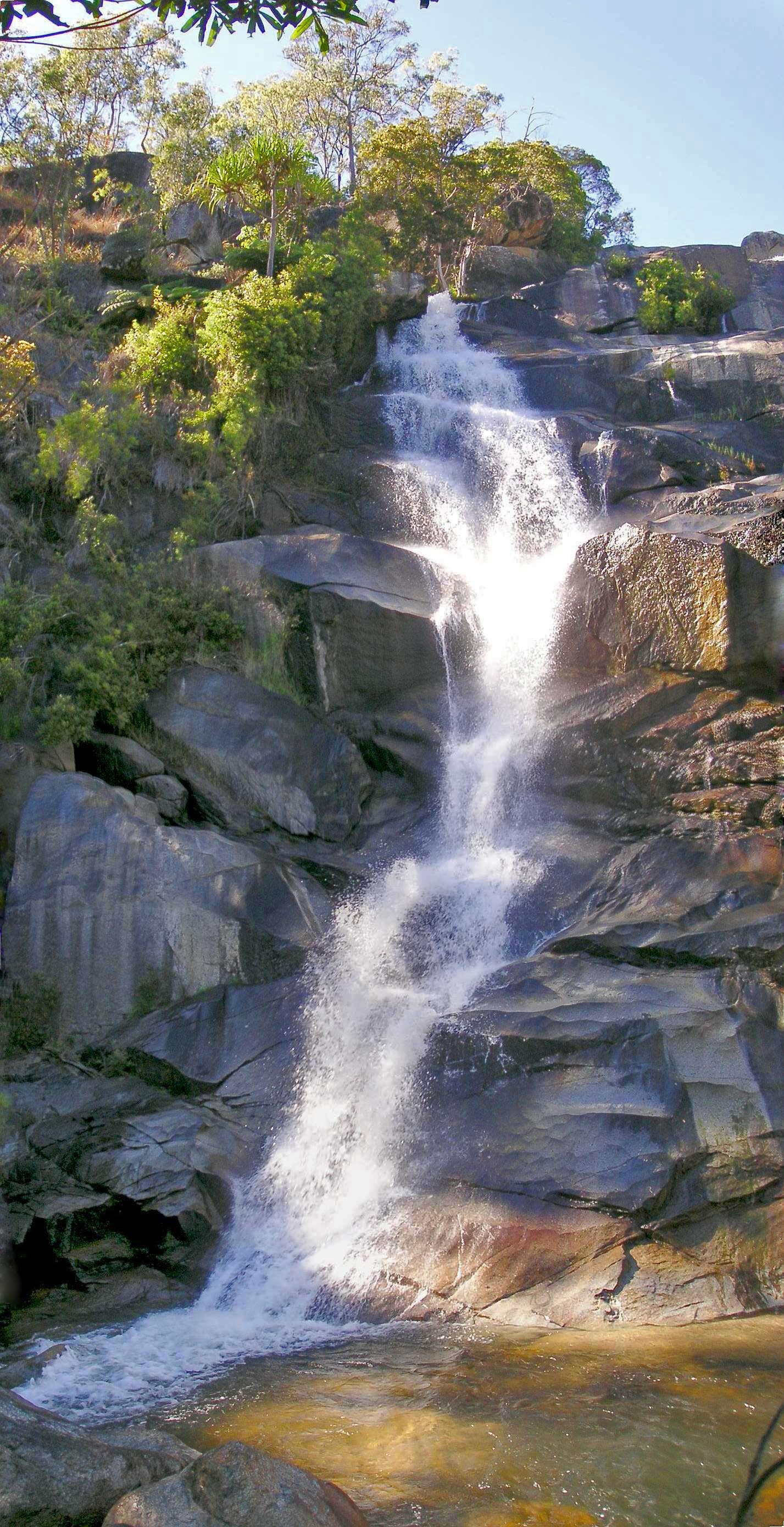 Davies creek NP Very near Cairns, Very nice place!